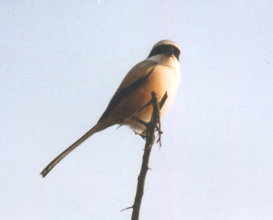 Bay-backed Shrike, Lanius vittatus Taken by Duncan Wright in Sariska National Park